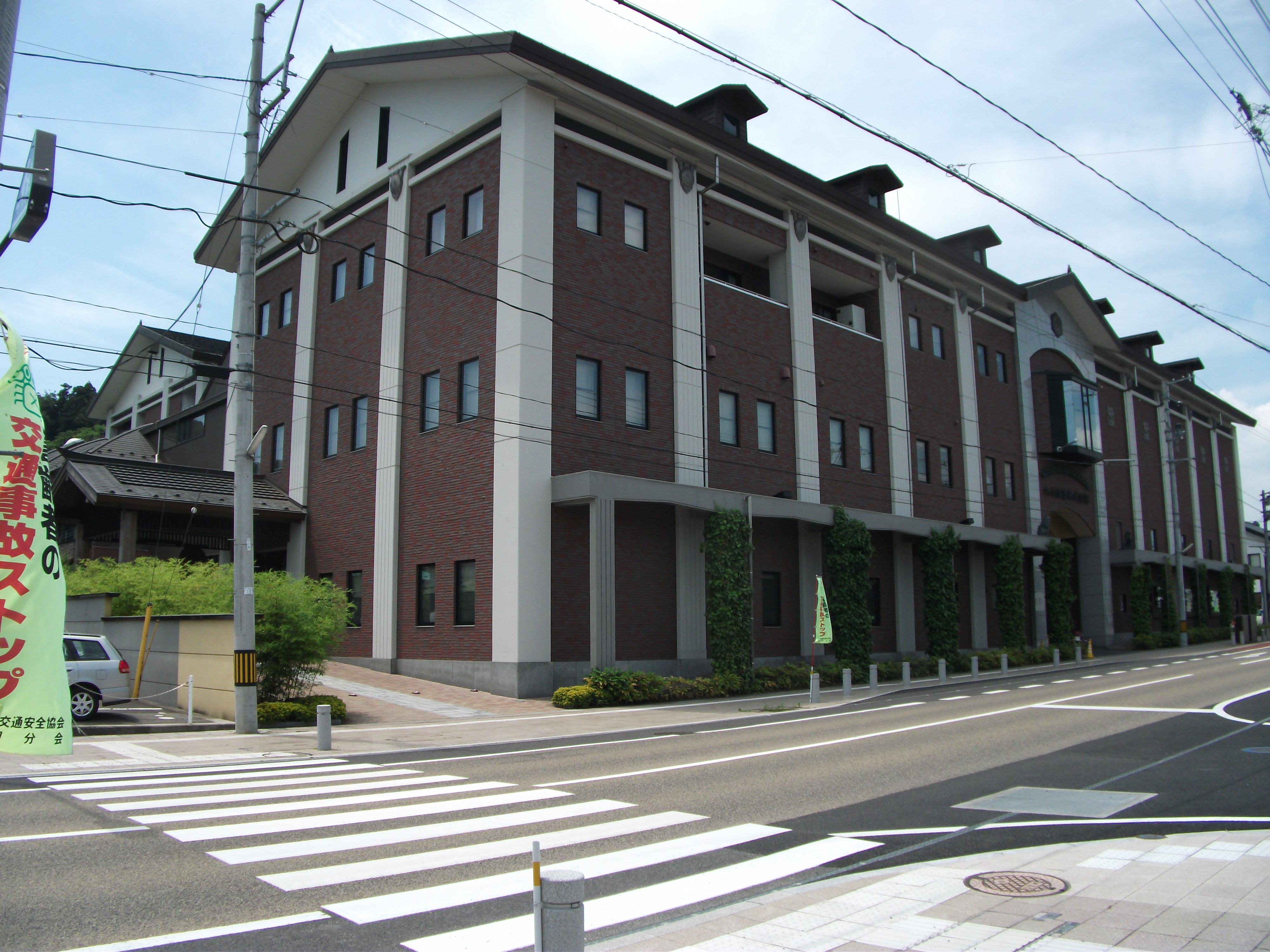 Daishichi Sake brewery (Nihonmatsu, Fukushima, Japan) 福島県二本松市、大七酒造